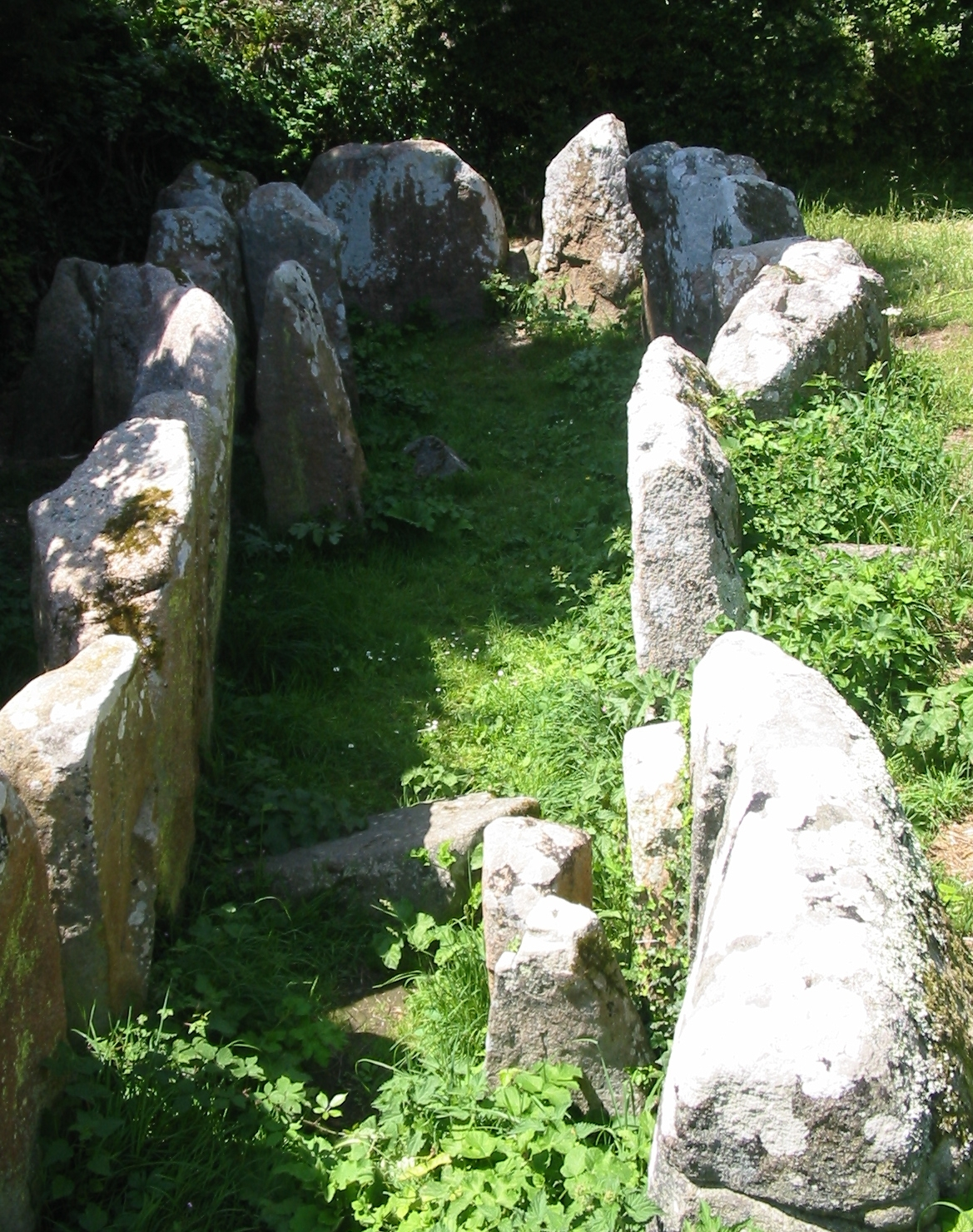 Jersey